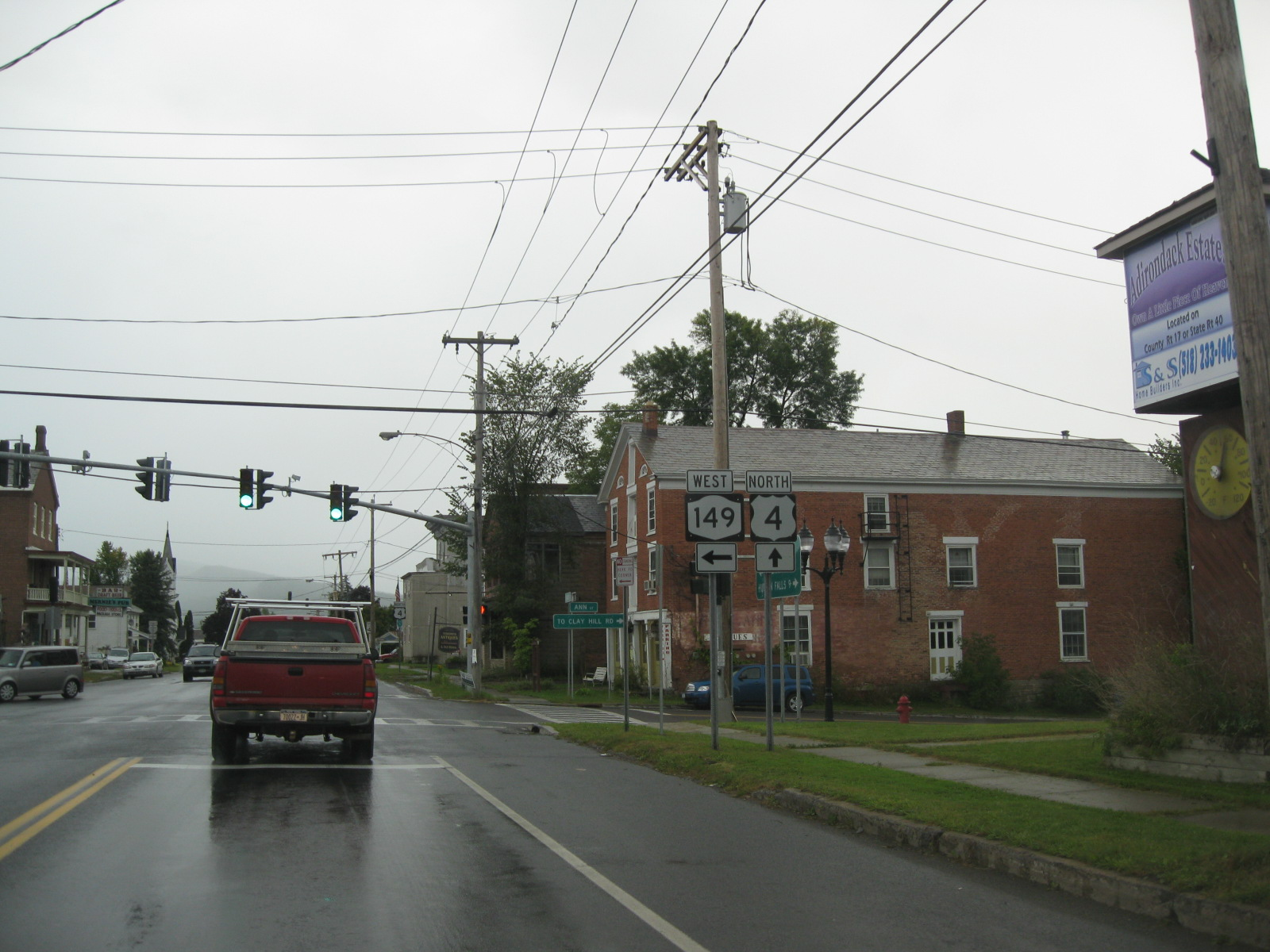 At the intersection with Clay Hill Road in Fort Ann, New York, New York State Route 149 turns westward towards Queensbury from U.S. Route 4 in New York. Clay Hill Road heads eastward to recently rehabilitated bridge.